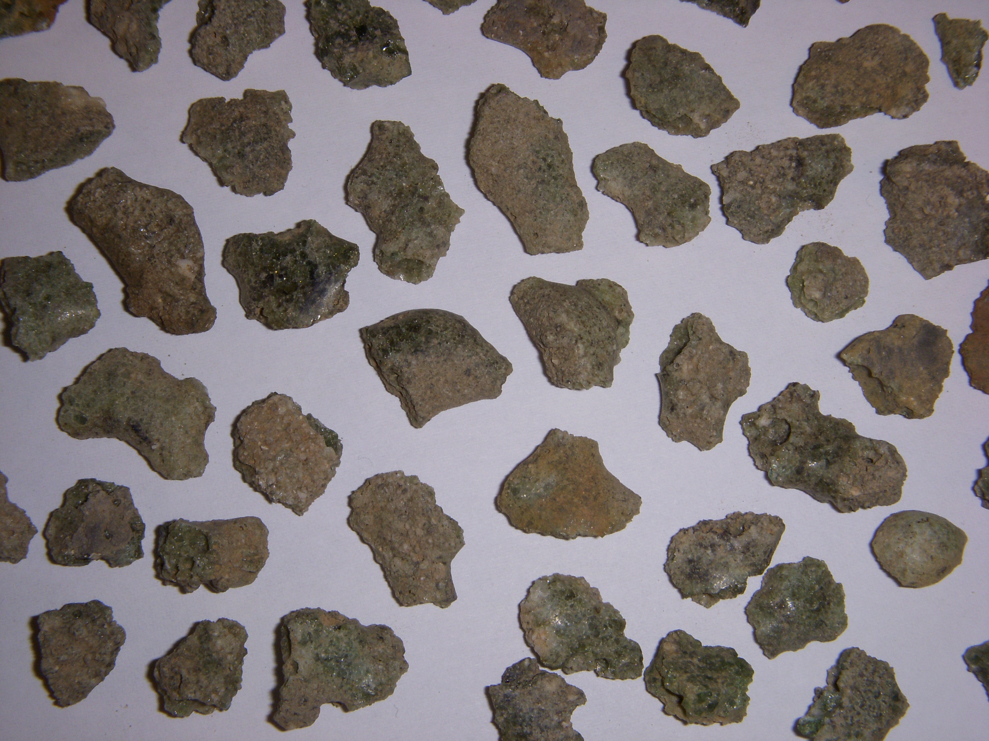 Small pieces of trinitite